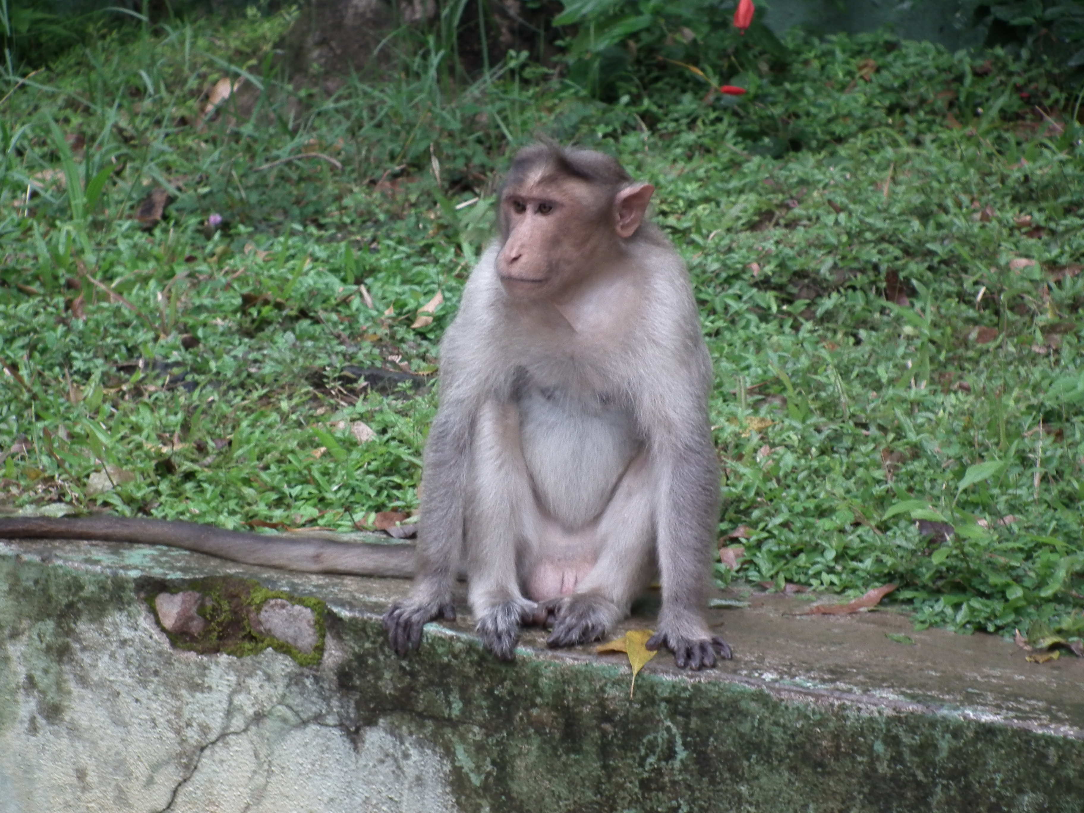 MOneky at Bannerghatta National Park